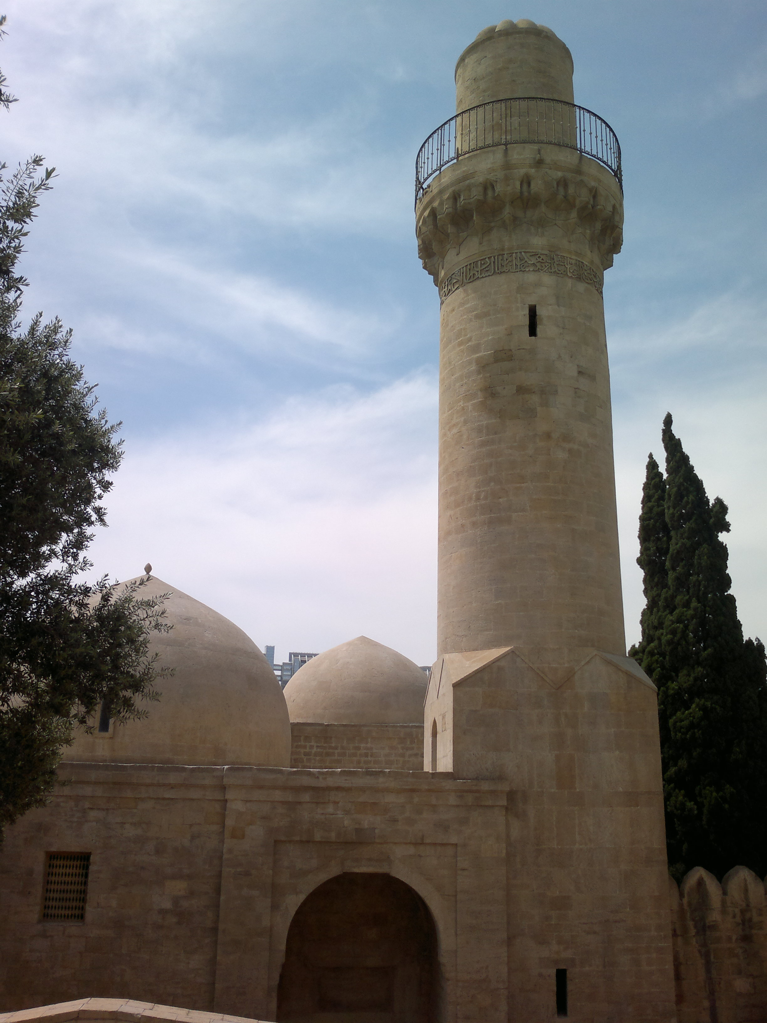 Mosque of Shirvanshahs in Baku, Azerbaijan.